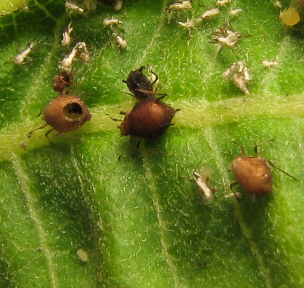 Milkweed aphid, Aphis nerii parasitized by Aphidiinae wasp, probaly Lysiphlebus. Three "mummies", one with an exit hole, and some exuvia on common milkweed, Asclepias syriaca. Schuylkill Nature Center, Philadelphia County, Pennsylvania, USA